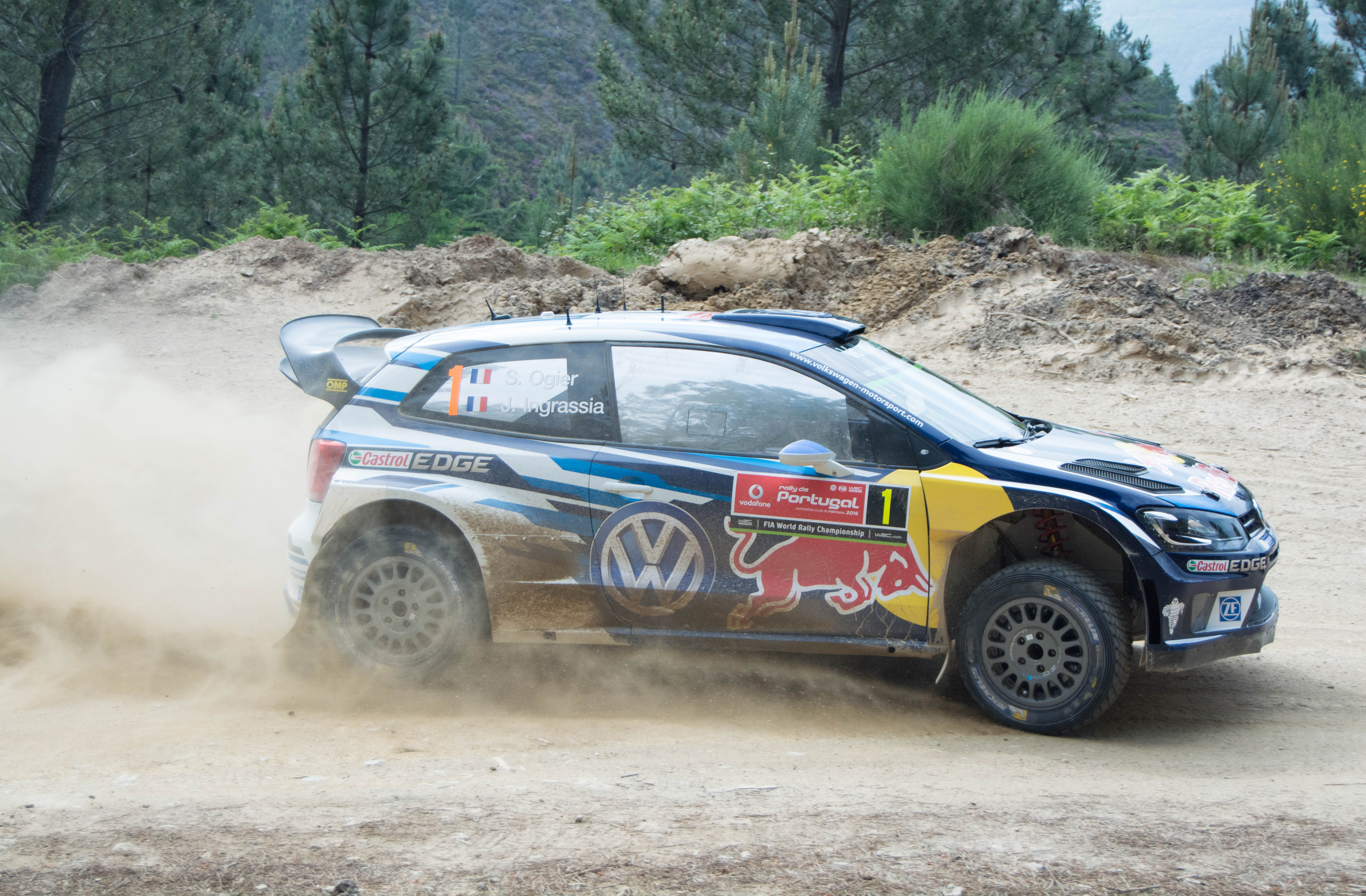 Rally of Portugal 2016. Section of "Marão", on the second pass